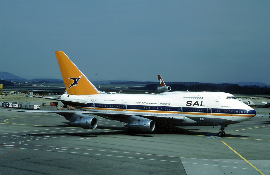 South African Airways Boeing 747SP